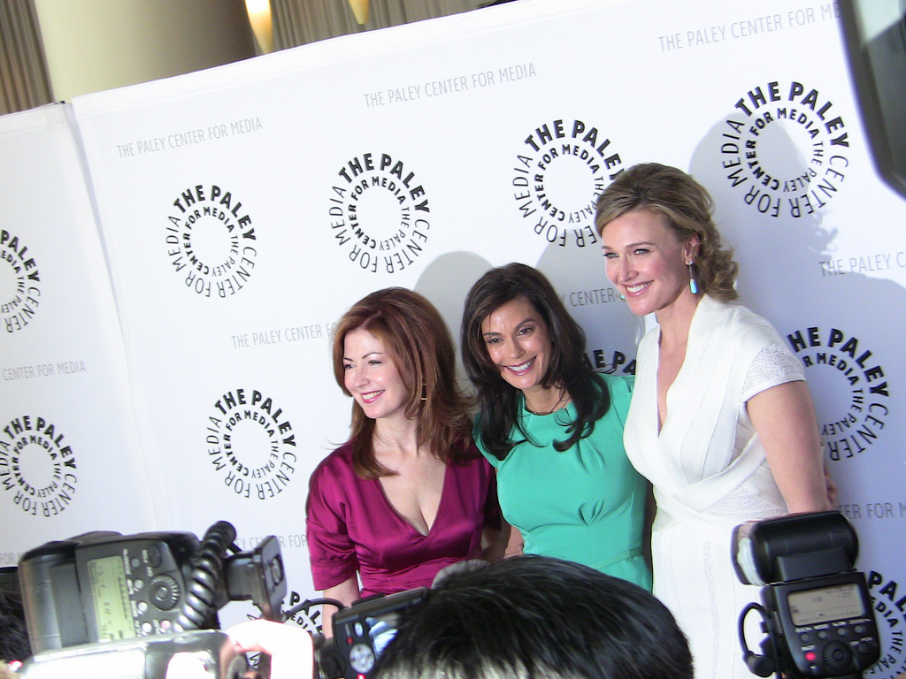 Dana Delany, Teri Hatcher, Brenda Strong - 25th Annual Paley Television Festival - ArcLight Cinemas, Los Angeles, Calif. - April 18, 2009